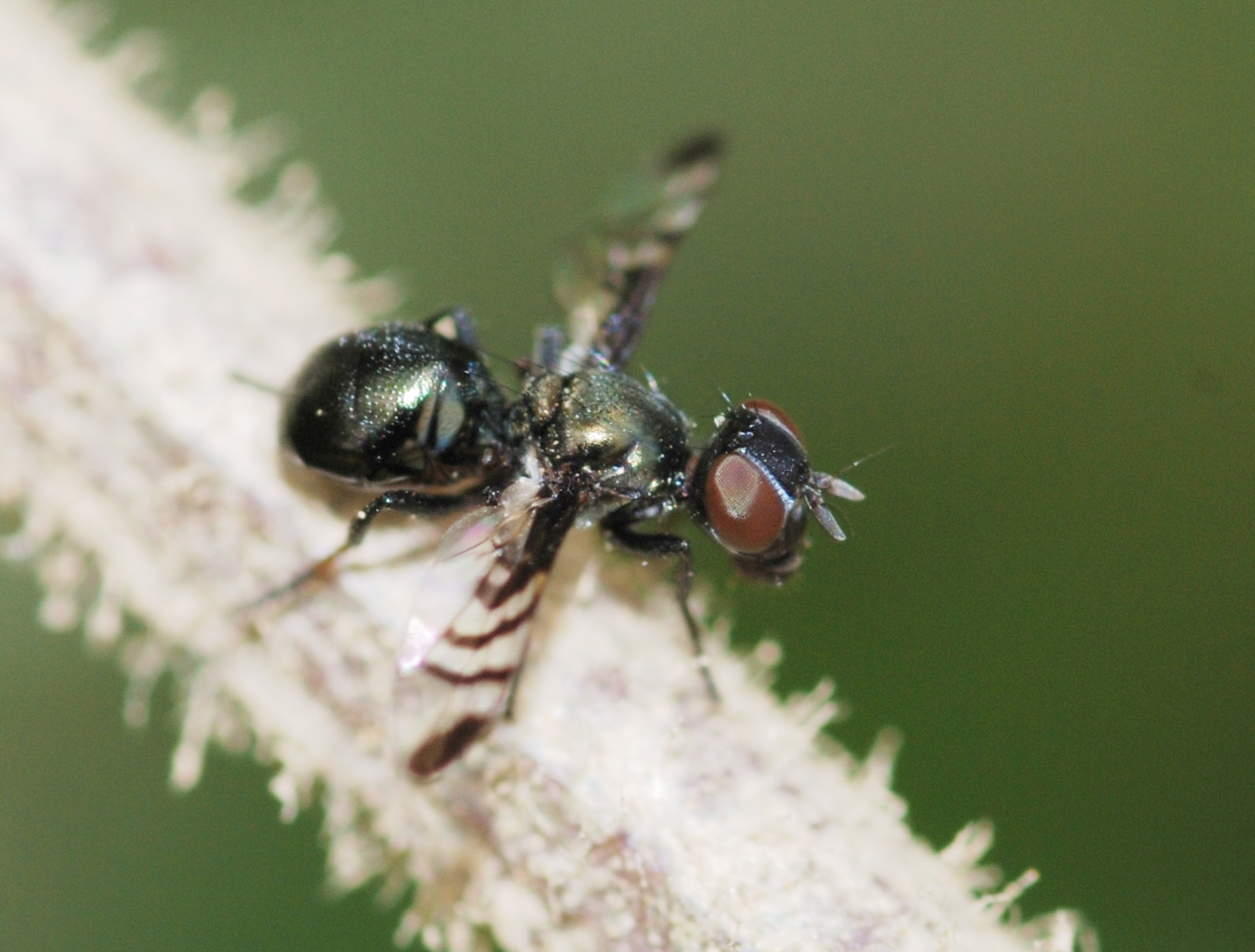 Fly of the Platystomatidae familiy (Rivellia syngenesiae)